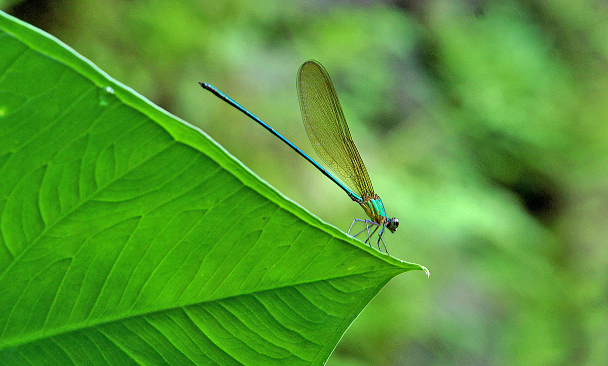 Clear-winged Forest Glory. Found along water-courses in hilly regions. The damselflies are often encountered in large numbers in shady forest clearings. they are sometimes associated with Black-tipped Forest Glories